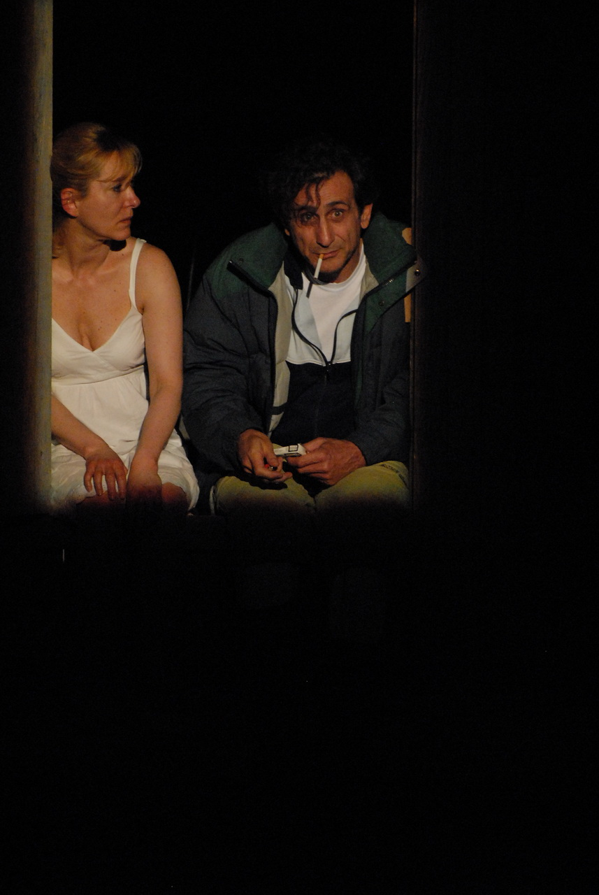 "Barbelo, on Dogs and Children" written by Biljana Srbljanović, directed by Predrag Štrbac; Drama of the SNT, Novi Sad, 2009/10; Olivera Stamenković, Radoje Čupić Srpski (latinica): "Barbelo, o psima i deci" Biljane Srbljanović u režiji Predraga Štrpca; Drama SNP-a, Novi Sad, 2009/10; Olivera Stamenković, Radoje Čupić Српски (ћирилица): "Барбело, о псима и деци" Биљане Србљановић у режији Предрага Штрпца; Драма СНП-а, Нови Сад, 2009/10; Оливера Стаменковић, Радоје Чупић